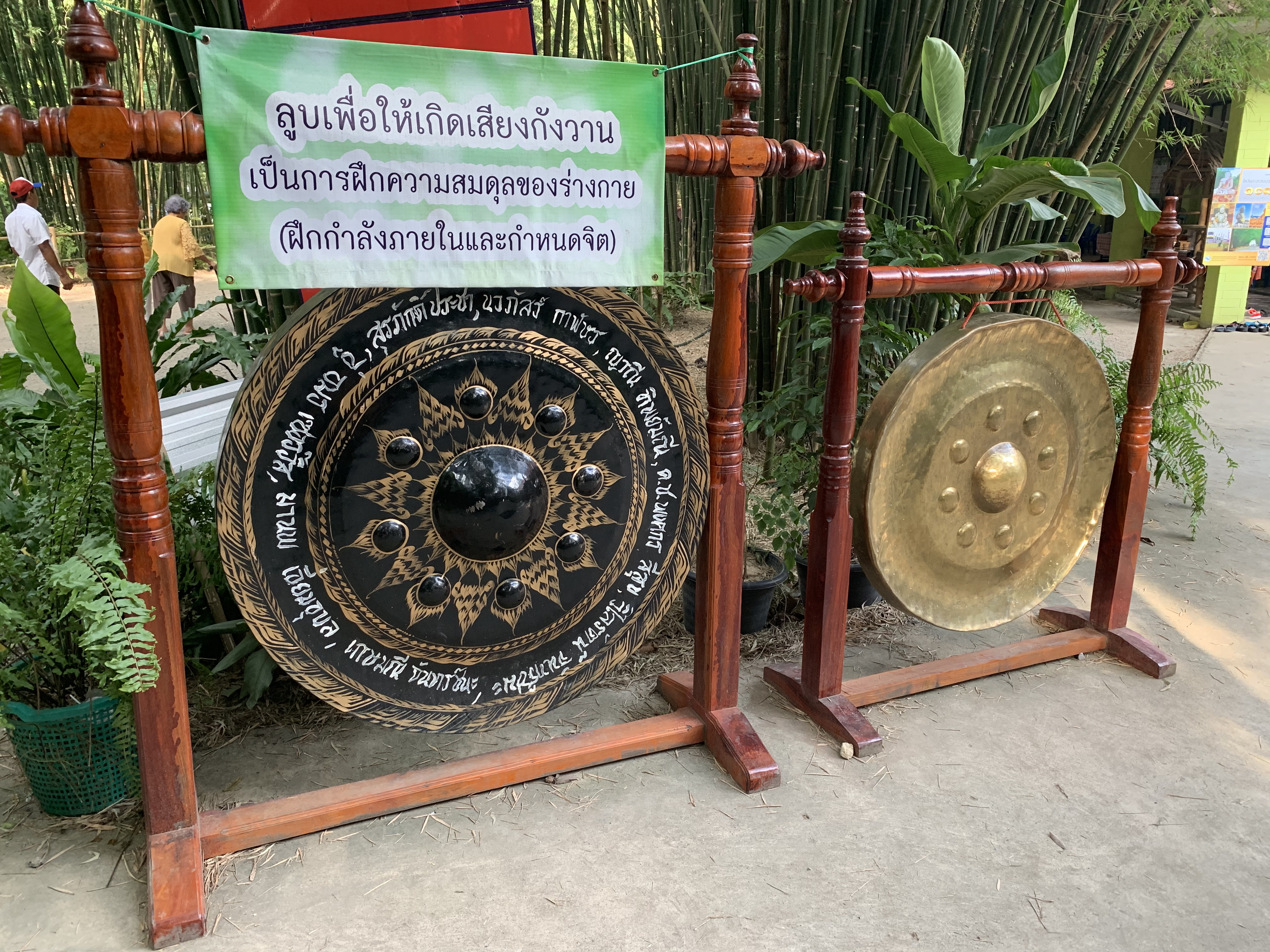 Thai Gongs (Nipple gong) at Wat Chulabhornvararam, Nakhon Nayok